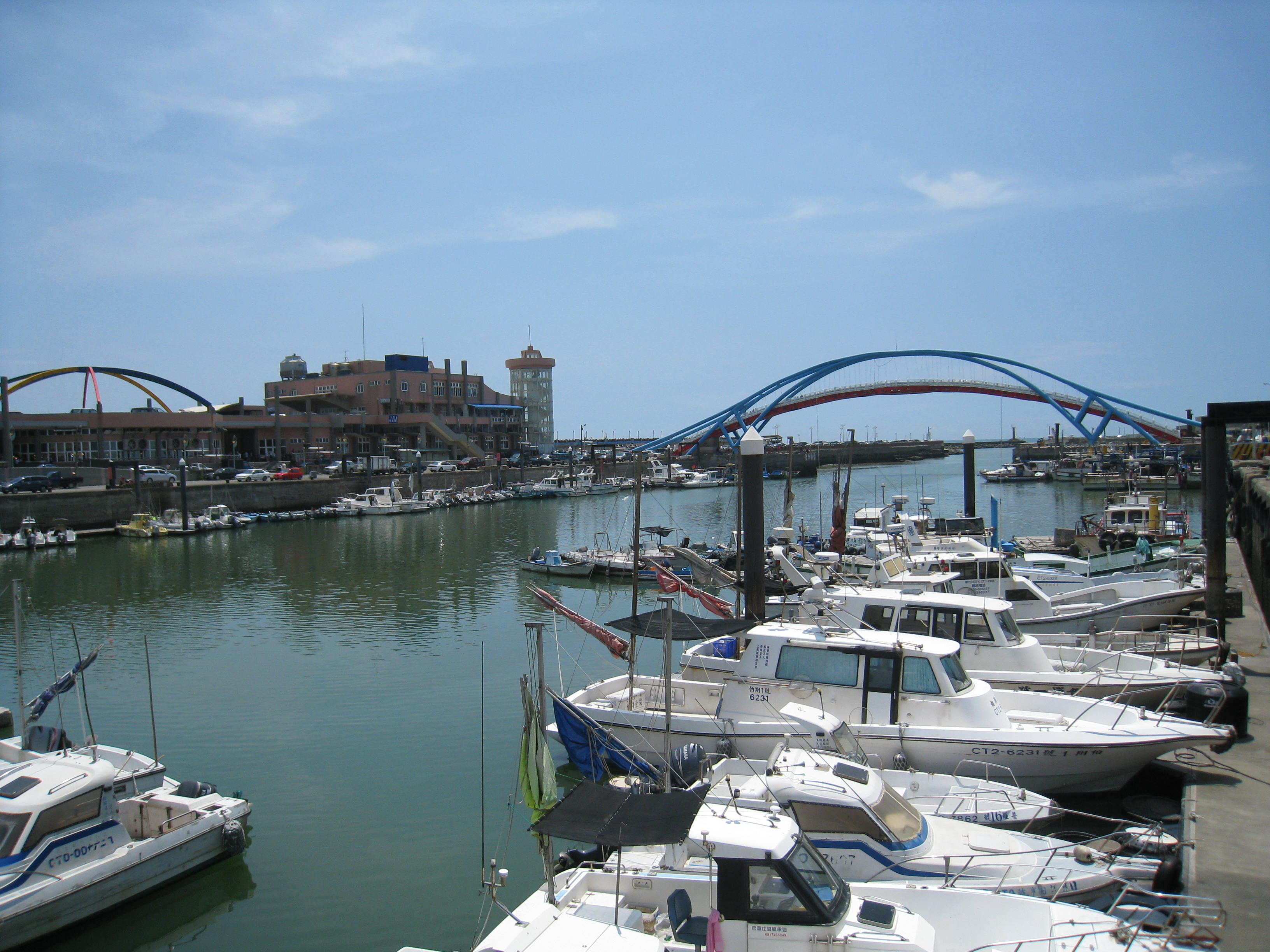 Taiwan Yong-an Fishery Harbor